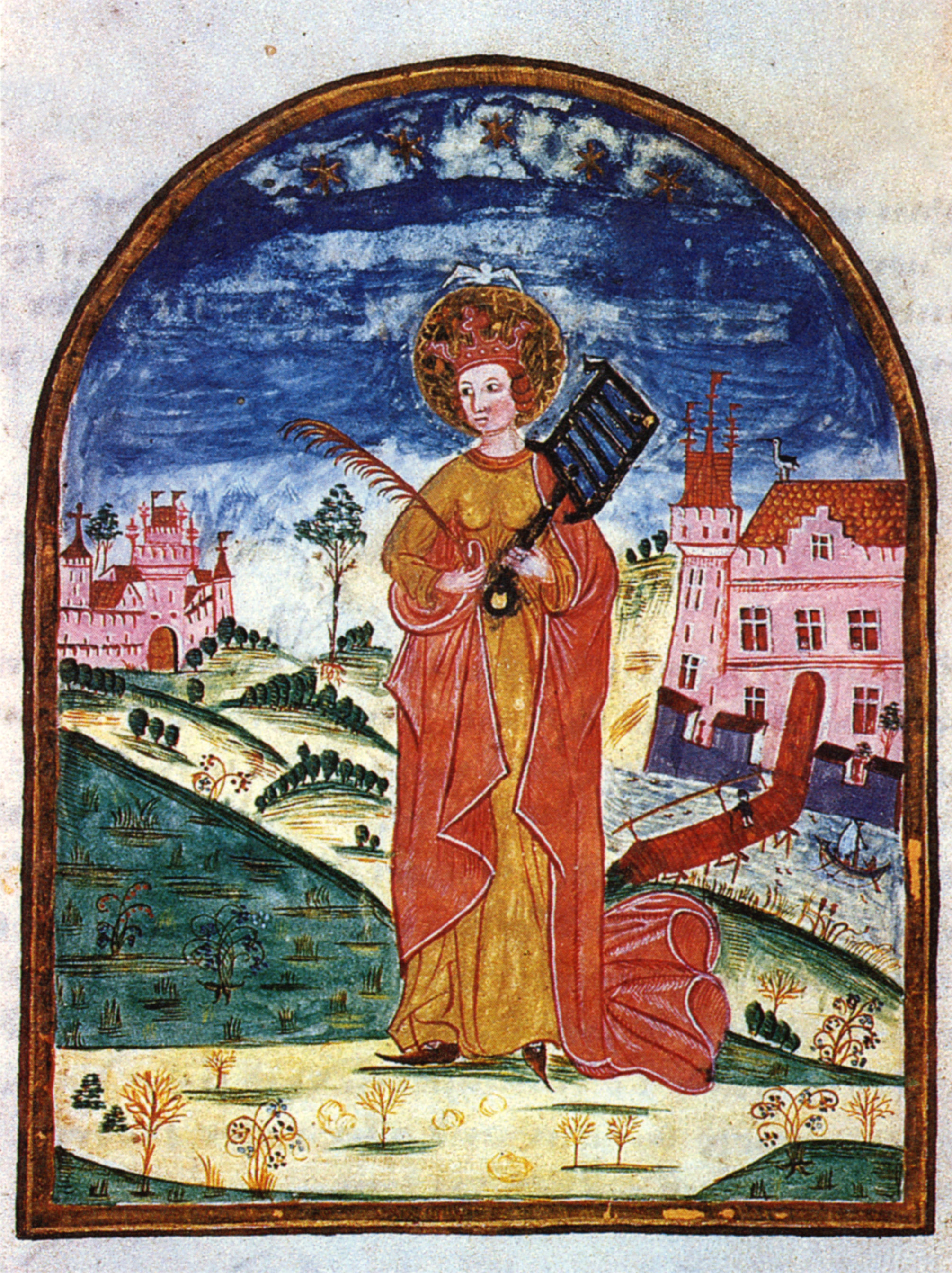 Painting on parchment showing Saint Faith (Sainte Foy, Heilige Fides). 12th century. From Sölden/Black Forerst, Germany